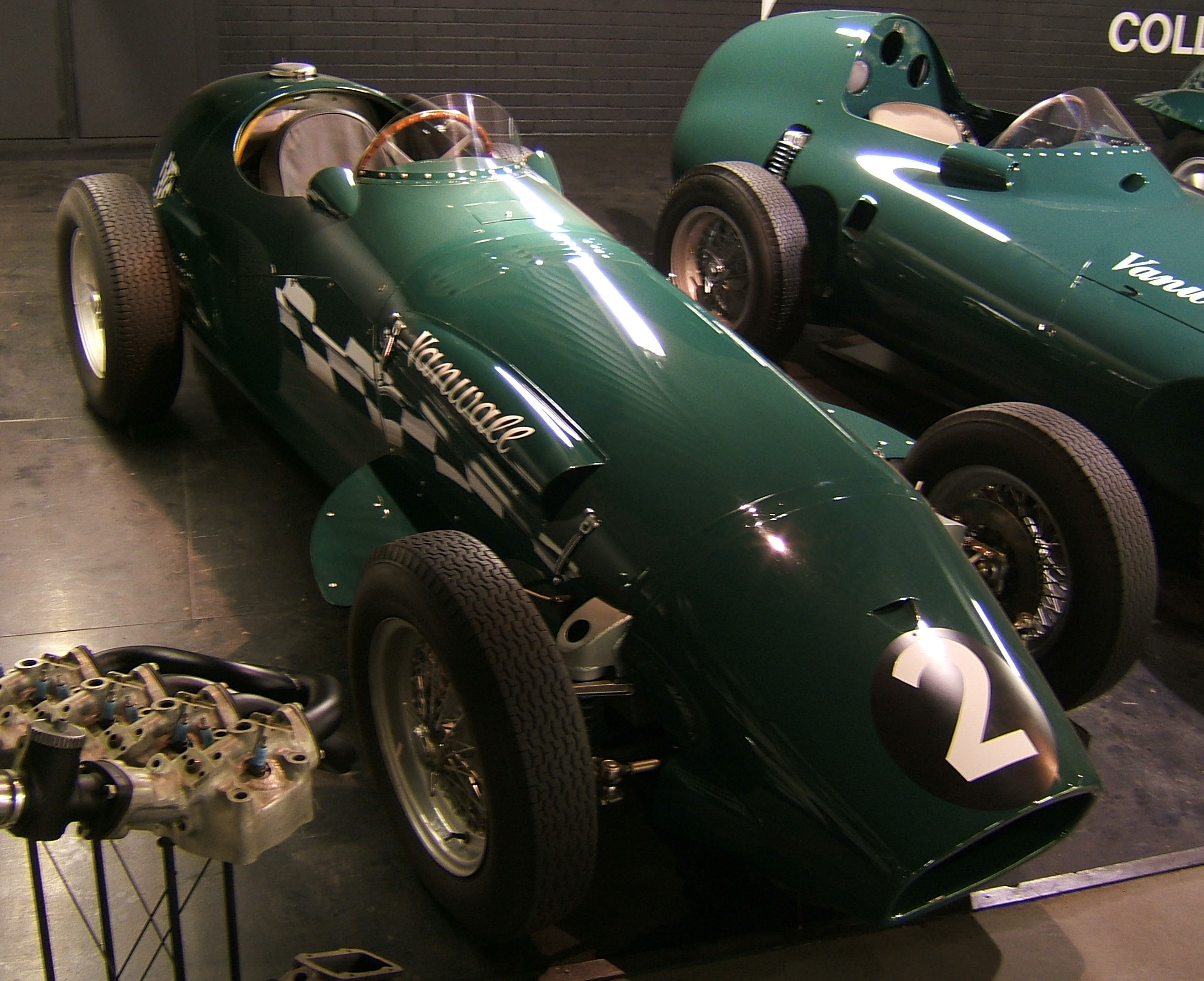 Vanwall VW2, wearing the early (1955) bodywork style with which it won the 1955 BRDC International Trophy race at Silverstone, driven by Stirling Moss. In the Donington Grand Prix Collection museum, Leics., UK.